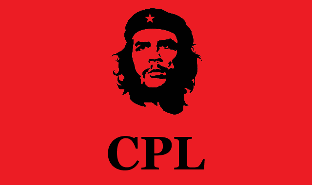 Flag used by guerrilla Comandos Populares de Liberación